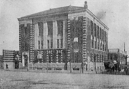 Keijo Nippo Company Building